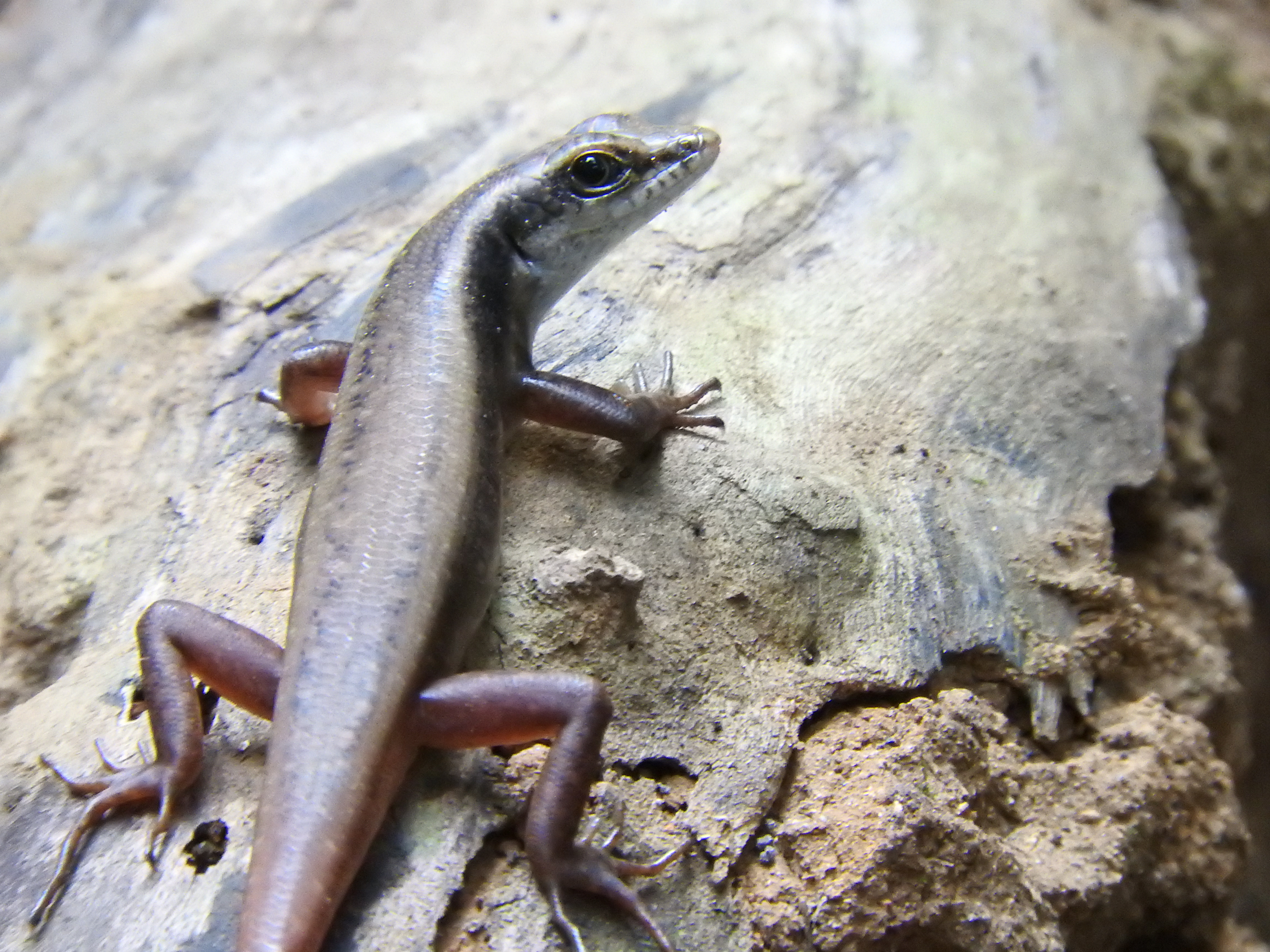 Dussumier's Litter Skink also known as Dussumier's Forest Skink, seen in the Southern Indian Peninsula is named after Jean-Jacques Dussumier (1792-1883), a trader-shipowner in the French mercantile marine, who collected specimens from many areas.